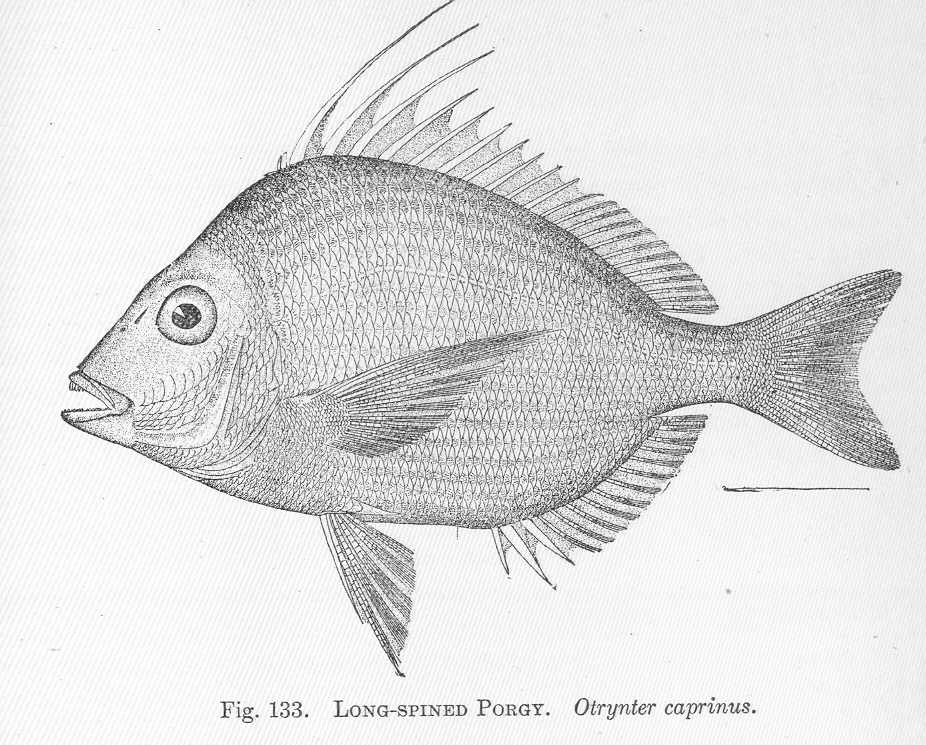 Long-Spined Porgy. Otrynter caprinus Subject: Sparidae Tag: Fish